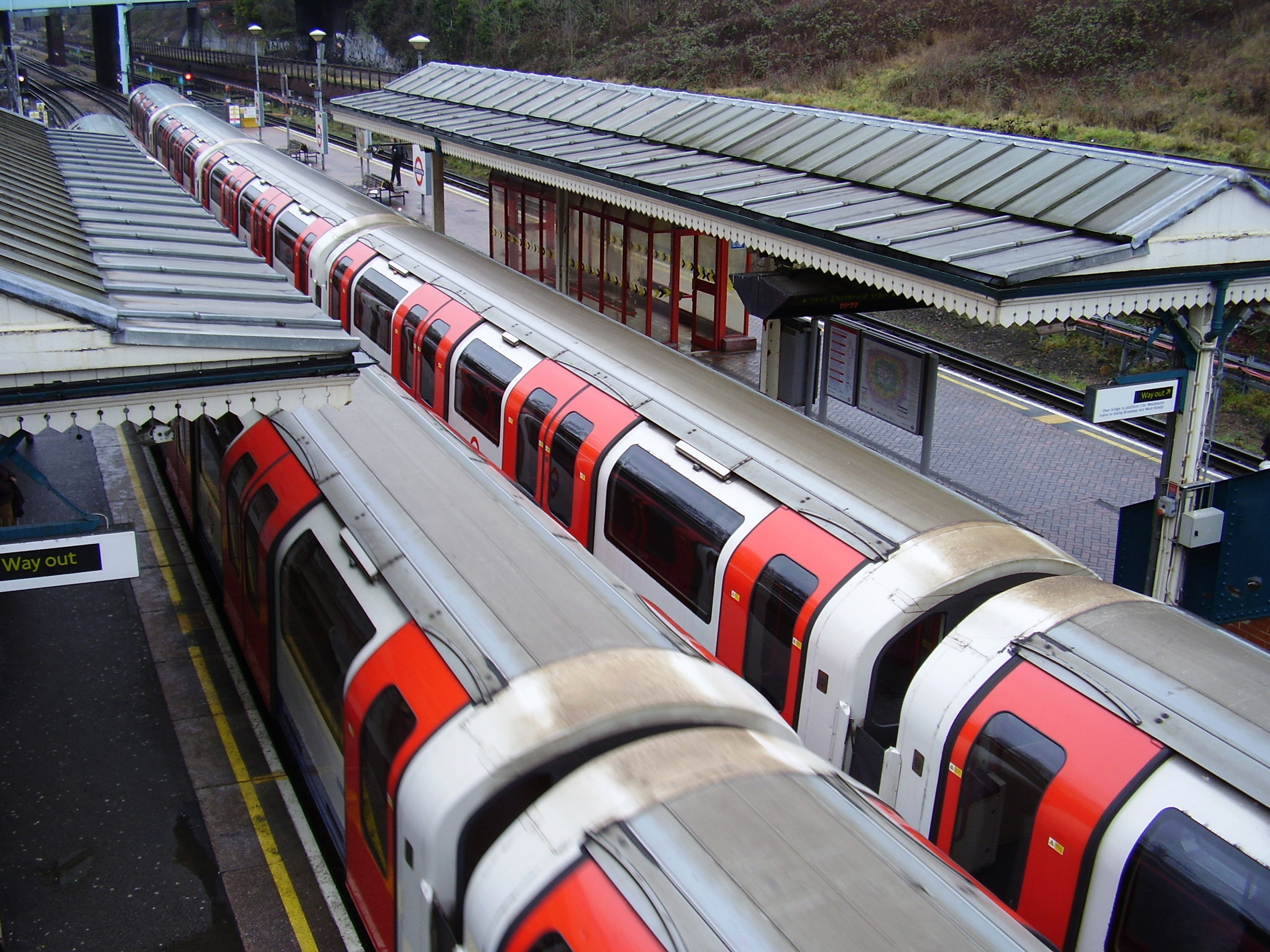 North Acton Underground station. Platform 1 is on the left, platform three on the right.